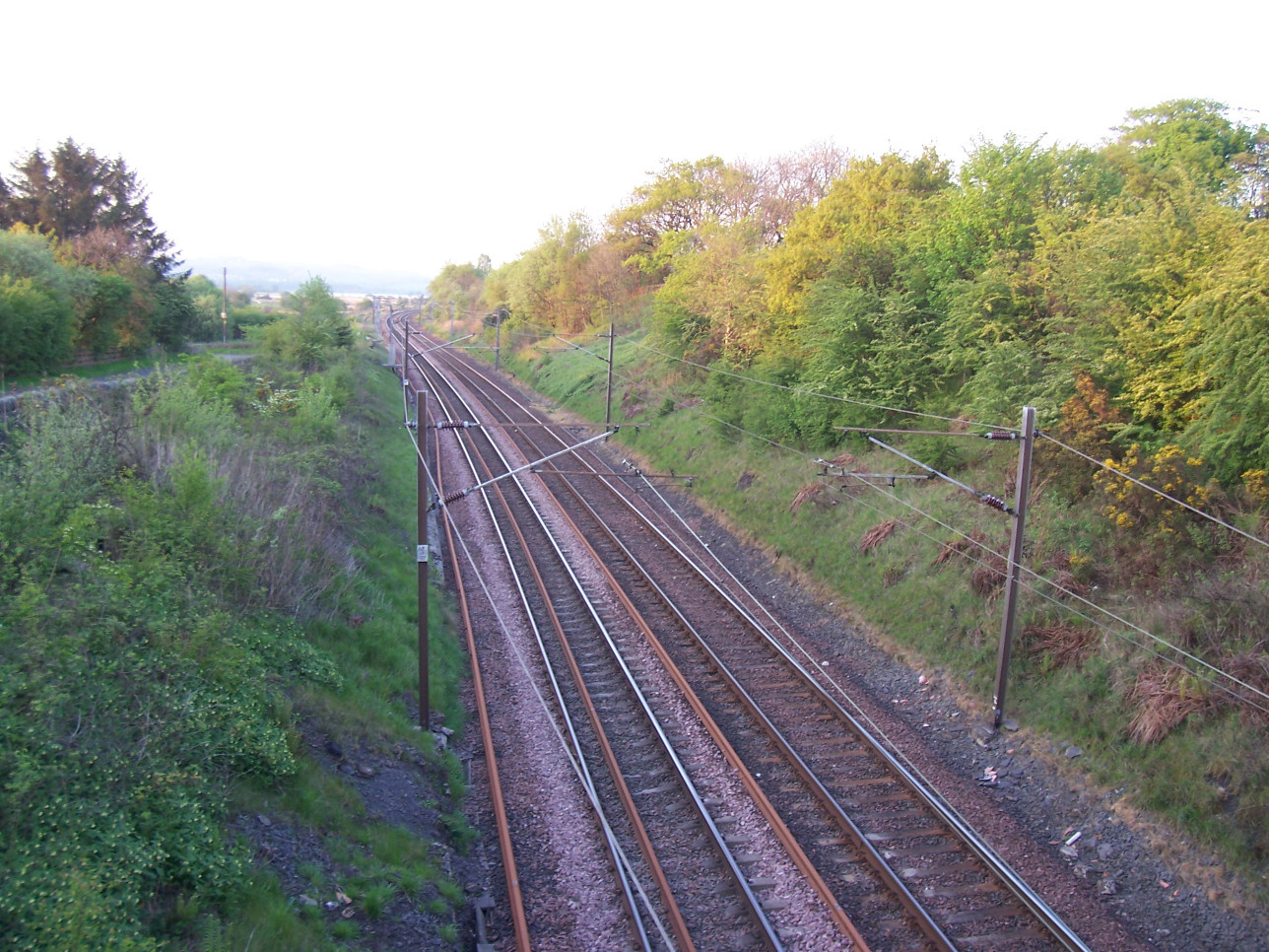 The site of Beith North railway station on the Ayrshire Coast Line near Beith, North Ayrshire, Scotland. Photo taken by Dreamer84